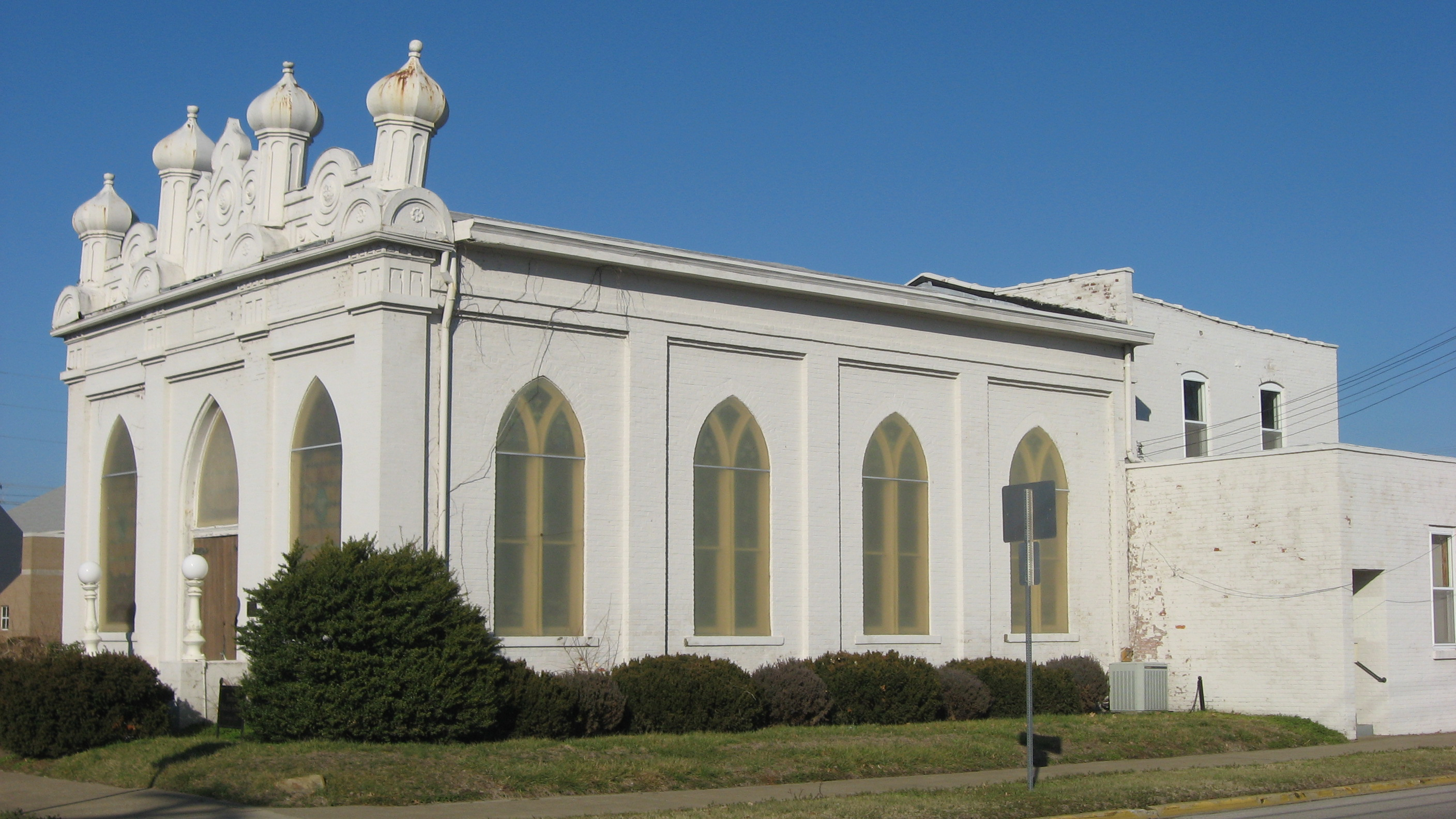 Southern side and front of Temple Adath Israel, located at 429 Daviess Street in Owensboro, Kentucky, United States. Built in 1878, it is listed on the National Register of Historic Places.